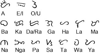 Example of Baybayin script. Baybayin Alphabet